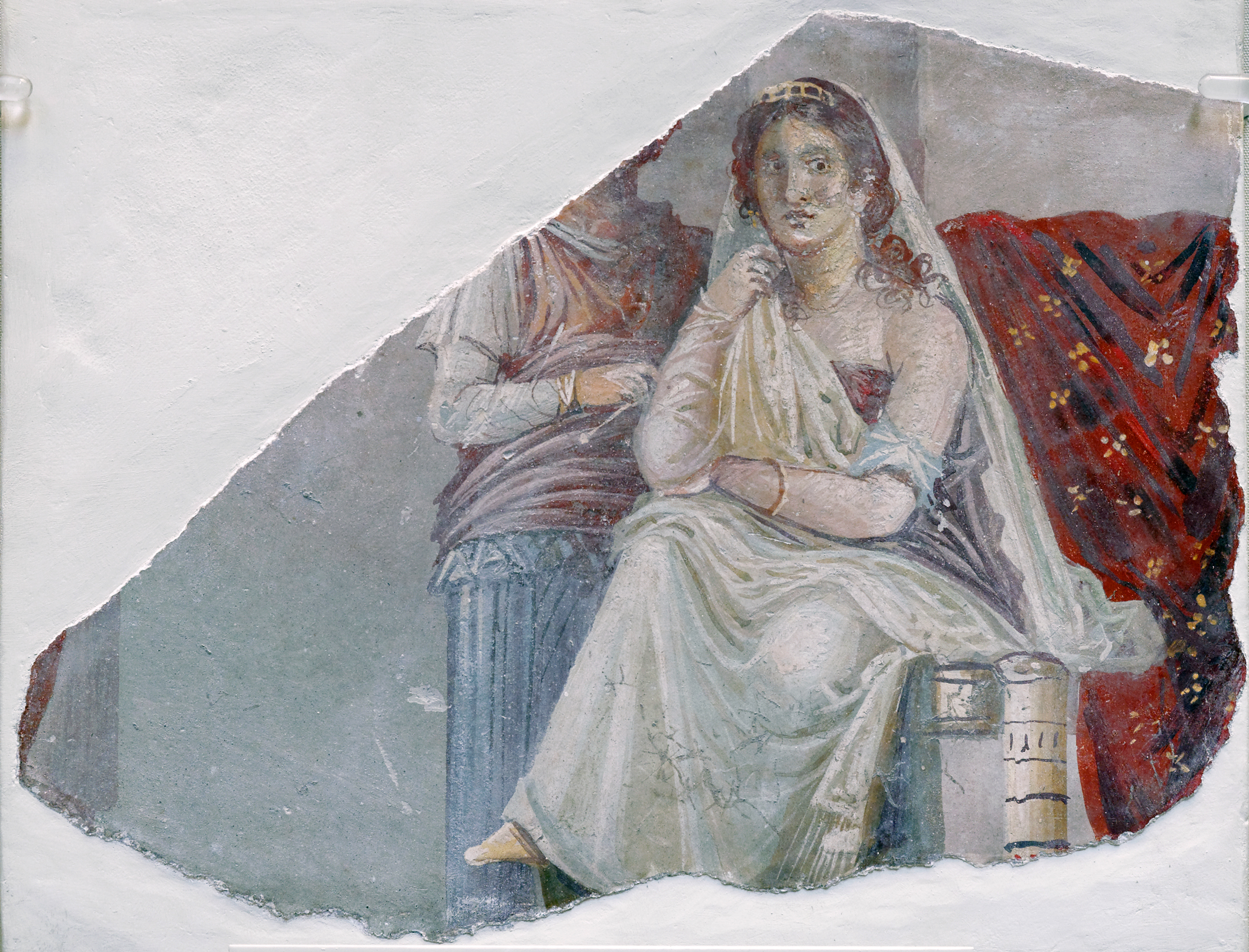 Color corrected of File:Phaedra BM .jpg, slightly smaller